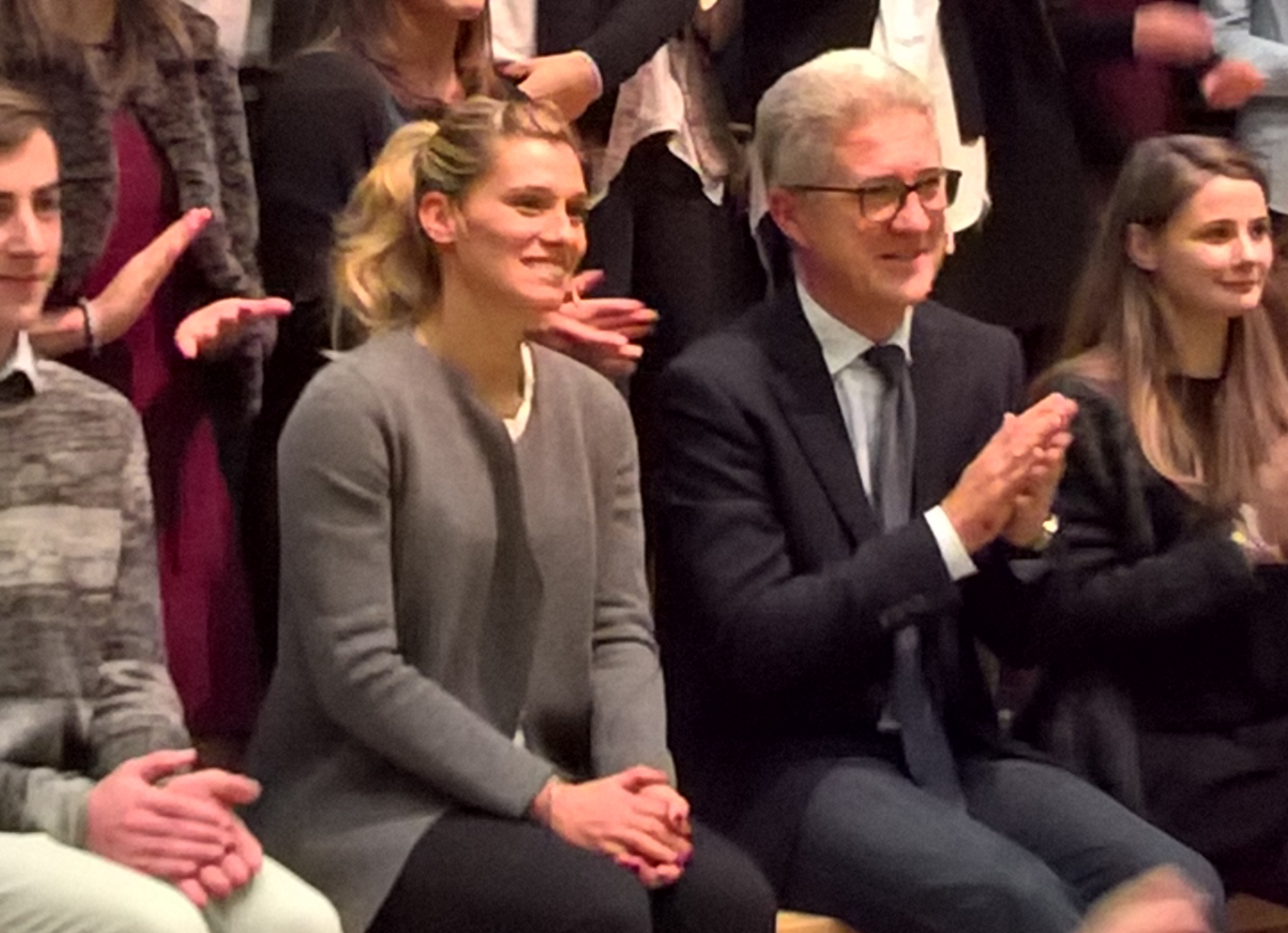 Francesca Dallapé and Stefano Bizzotto during a scholarship delivering ceremony in Lavis (TN, Italy)